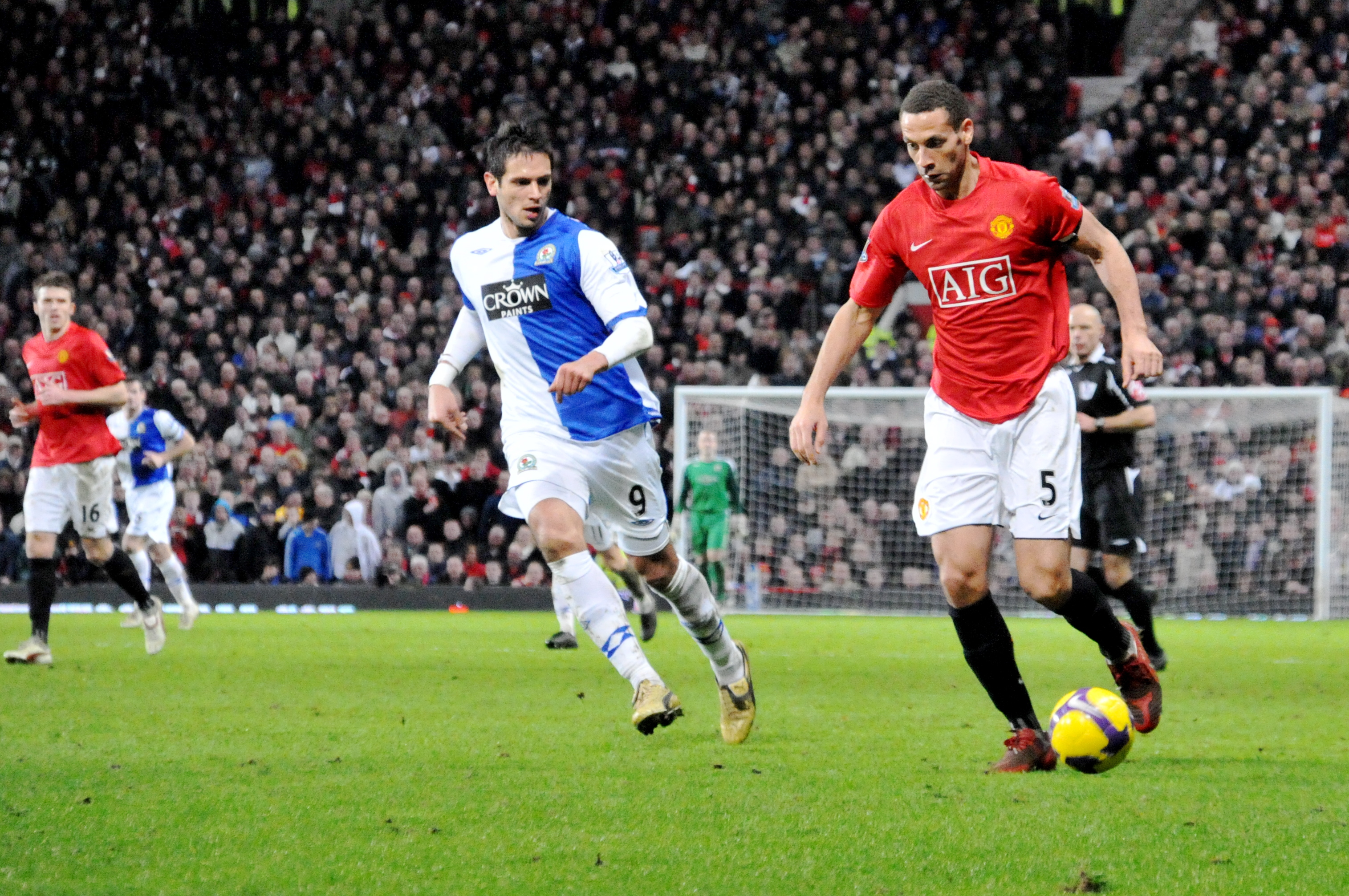 Rio Ferdinand of Manchester United, Roque Santa Cruz of Blackburn Rovers